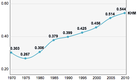 Trends in the Human Development Index for the country, 1970-2010